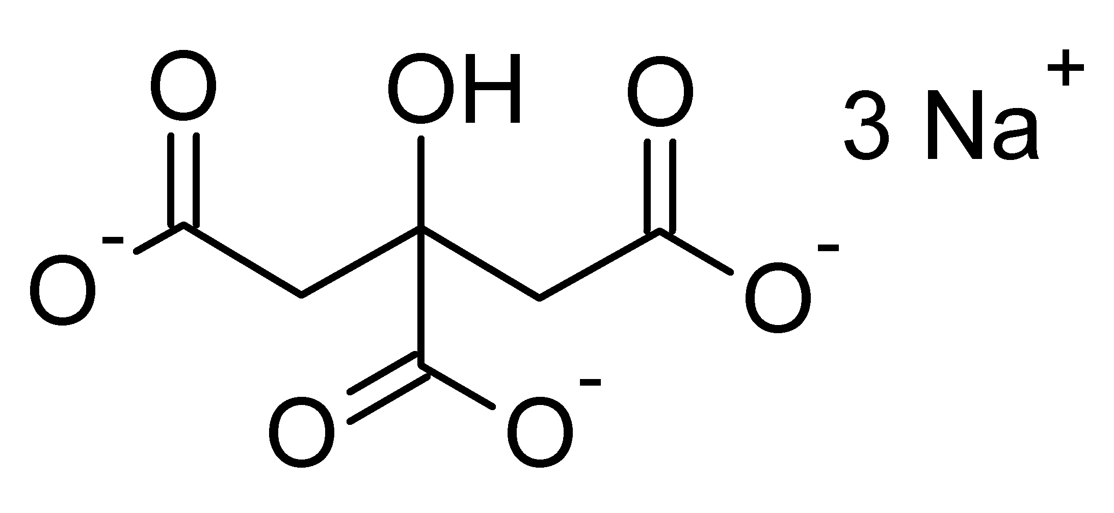 chemical structure of Sodium citrate